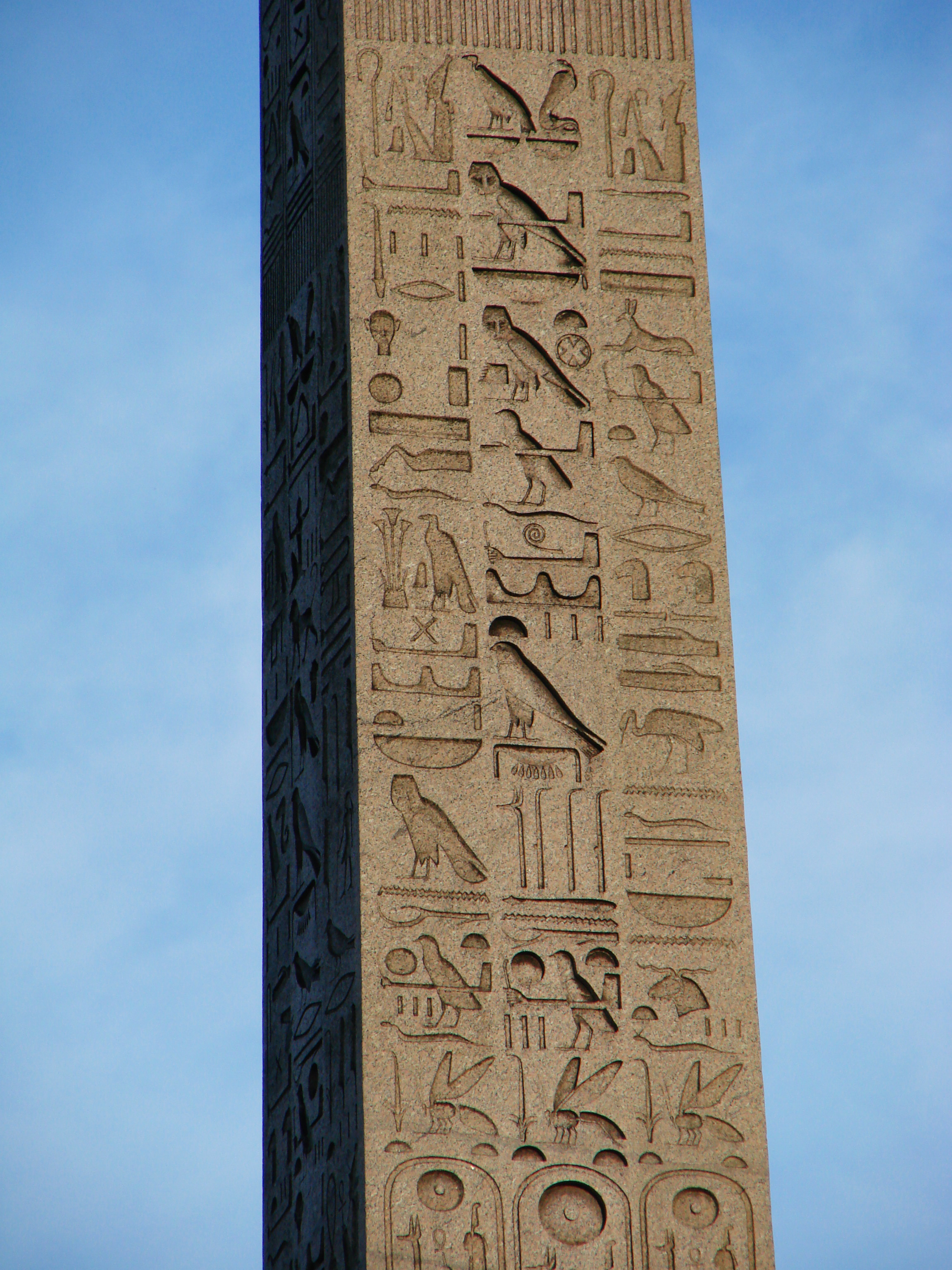 Close-up of Luxor Obelisk, and hieroglyphs.